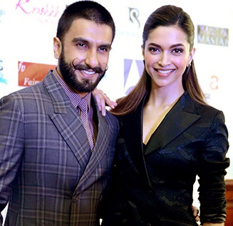 Ranveer Singh & Deepika Padukone at the press conference of ‘Bajirao Mastani’ in Delhi